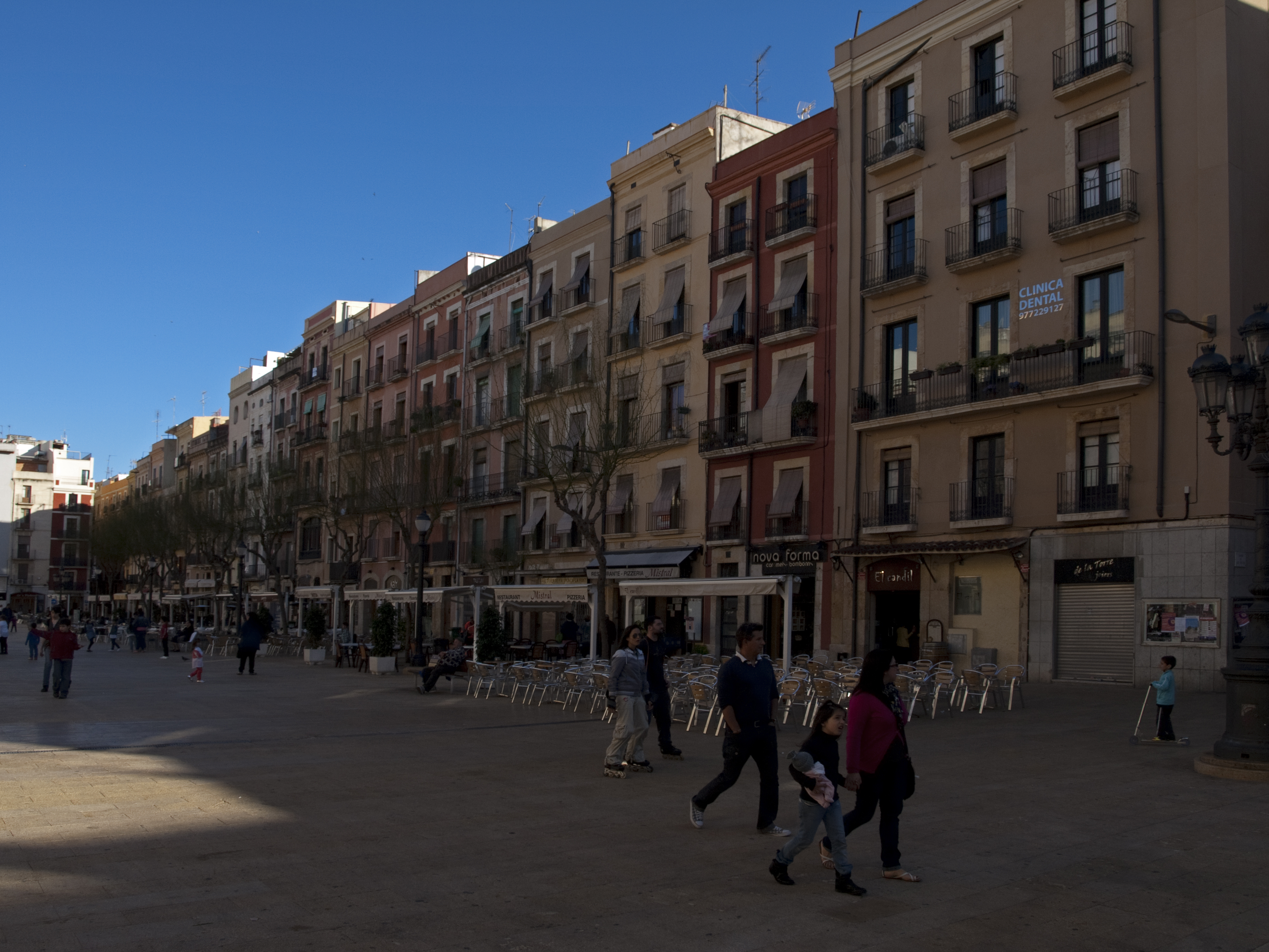 Plaça de la Font, Tarragona